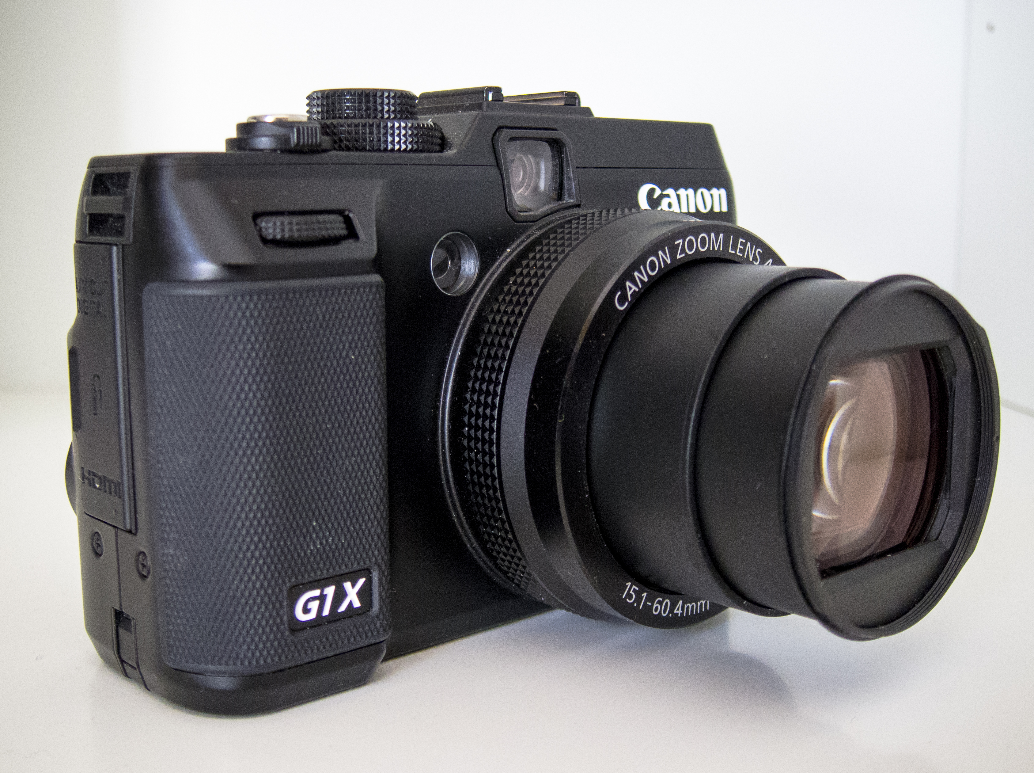 Canon PowerShot G1 X.